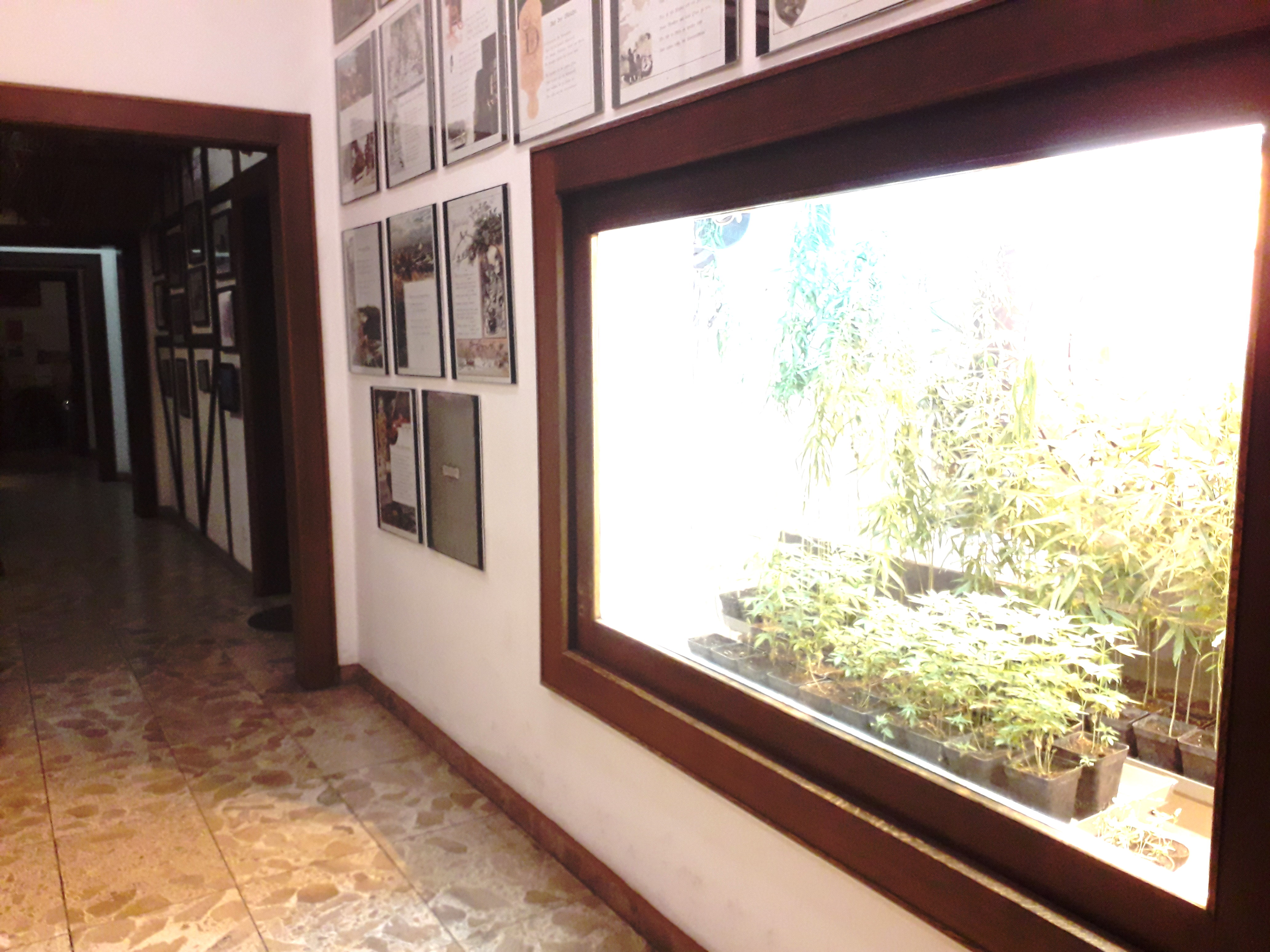 Hemp Plants growing inside the Hanf Museum